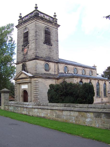 Parish church of St Mary the Virgin, Ingestre, Staffordshire, seen from the south